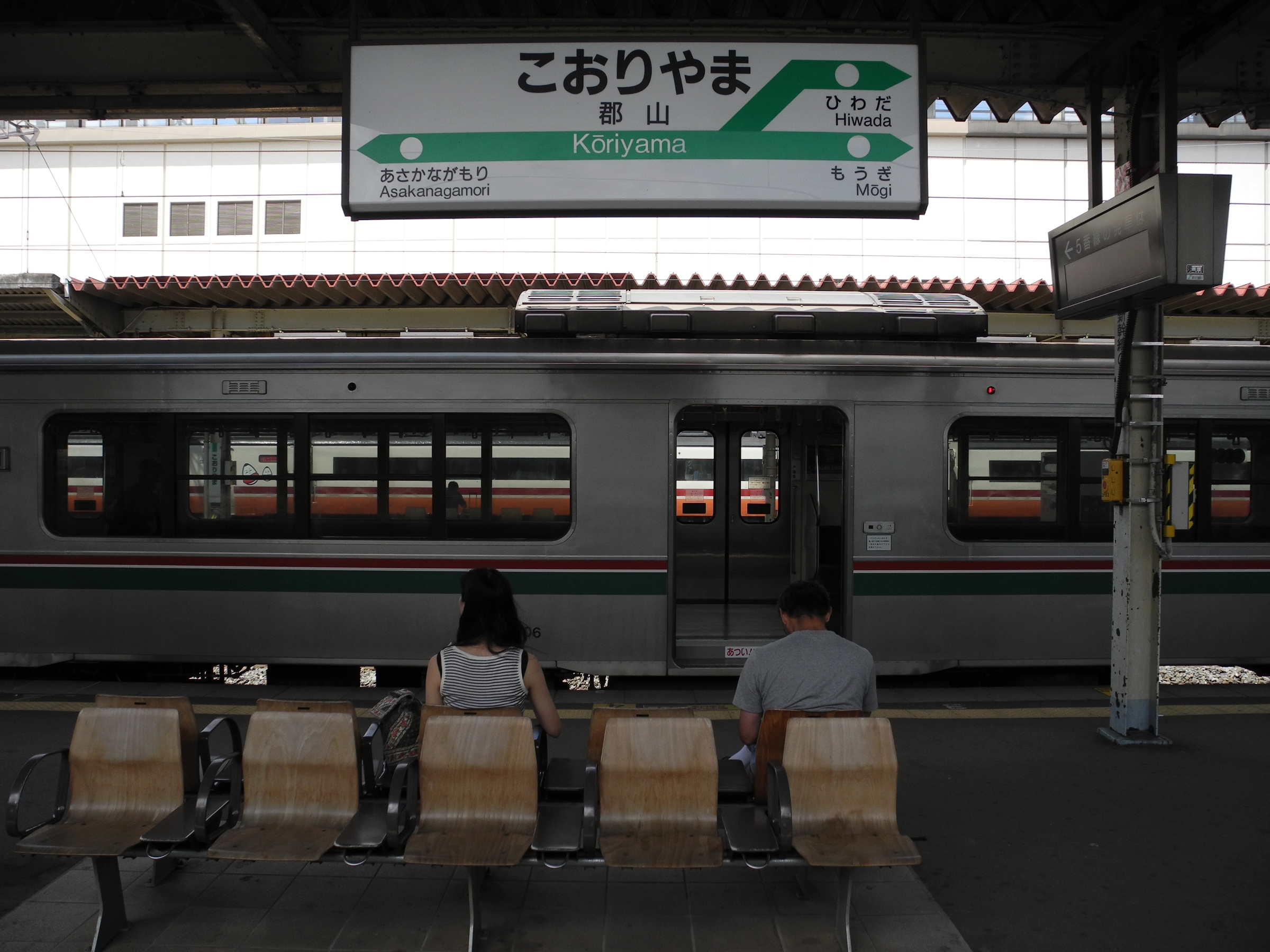 A train and the sign on the platform at Koriyama Station.